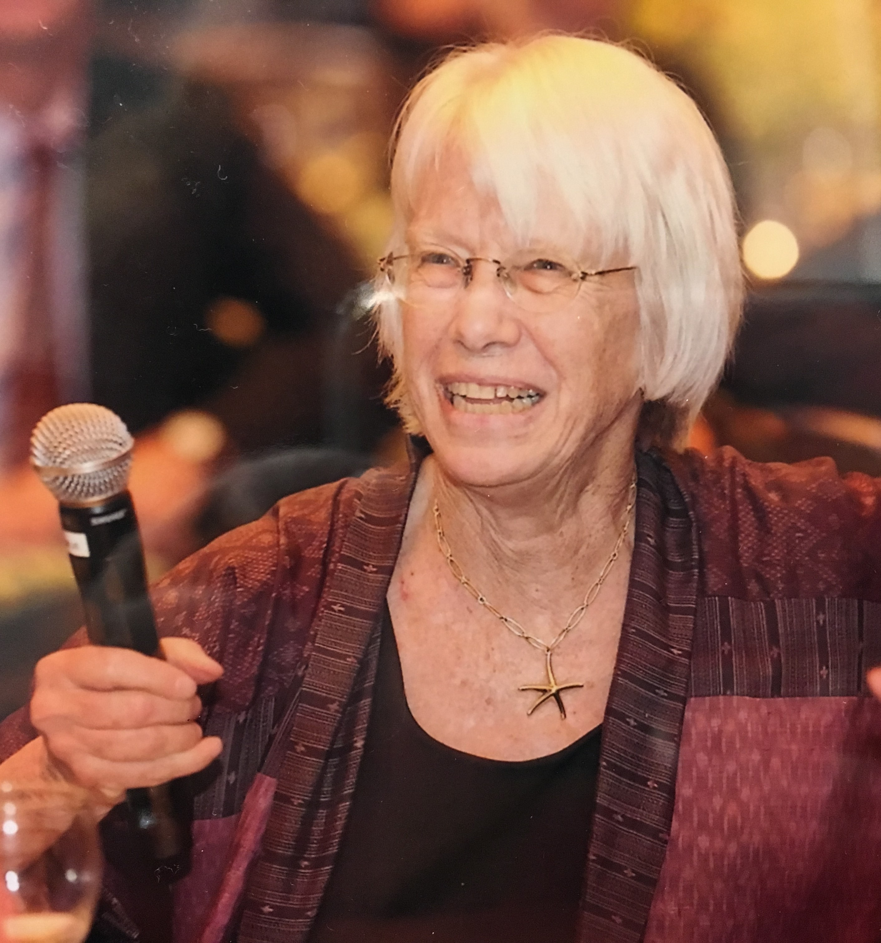 I want to replace the photo of Adele Smith Simmons on Wikipedia with this photo. Take out the giant white hat photo and put this one in its place.